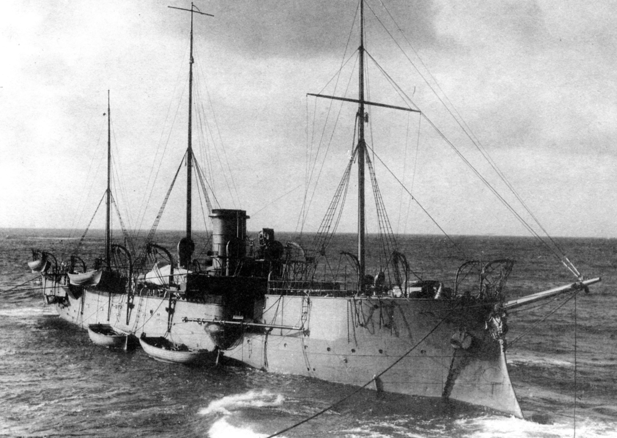 Imperial Russian gunboat Kubanets after modernization.